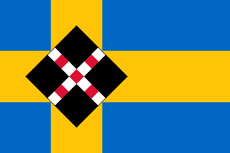 Flag of former municipality of Veghel; introduced in 1969.